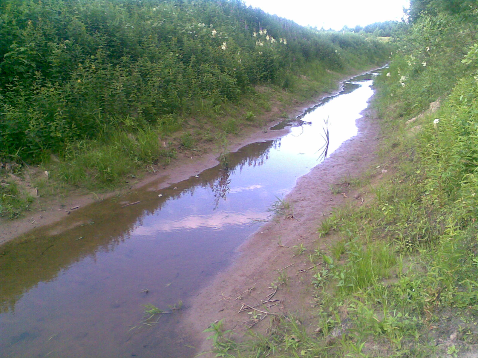 Lietava (Lietauka) river, Jonava district